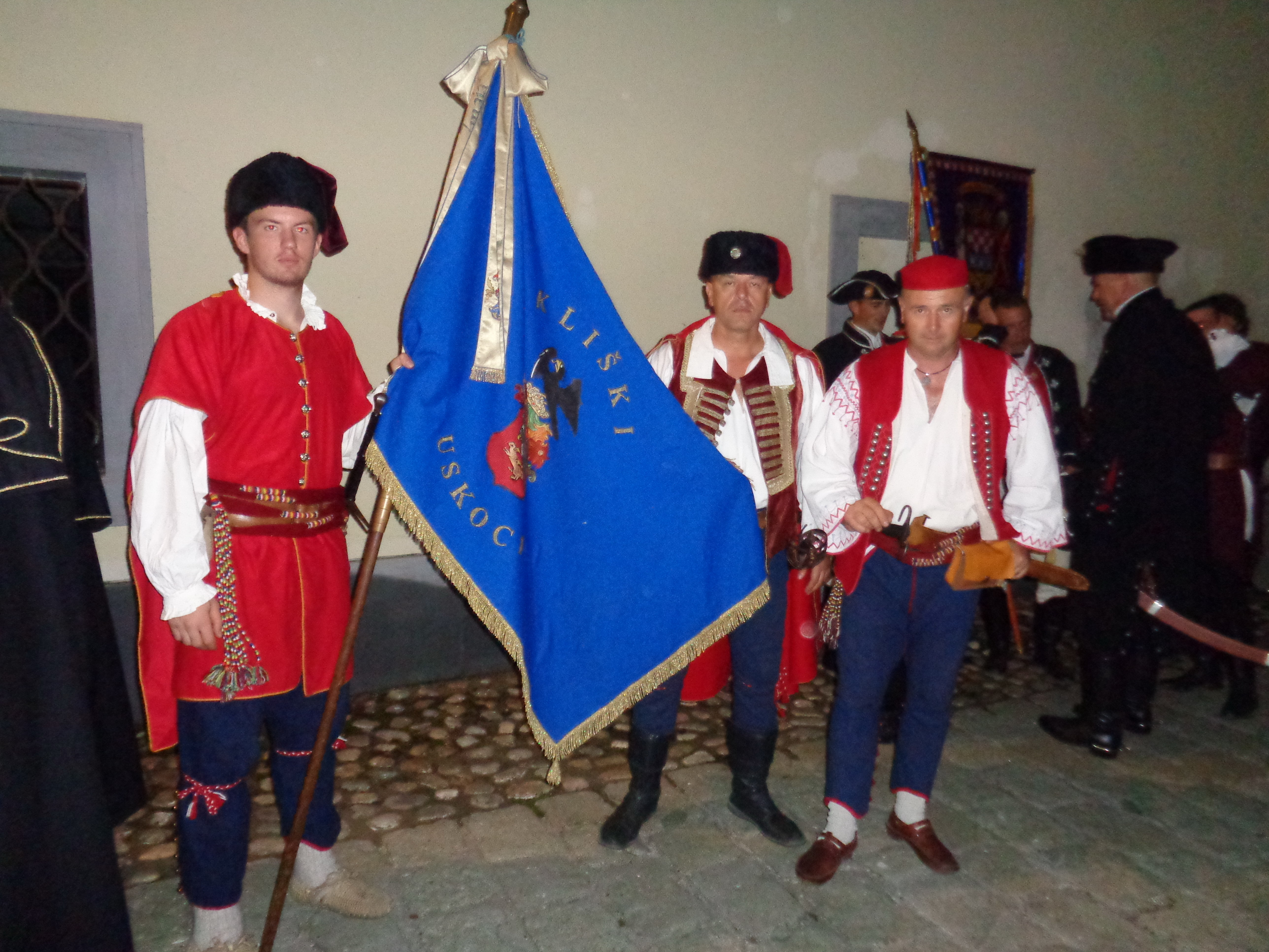 "Uskoks of Klis", a historical military unit from the town of Klis (Dalmatia), Croatia, during the 450th Anniversary of the Battle of Szigetvár (7th September 2016) in Čakovec